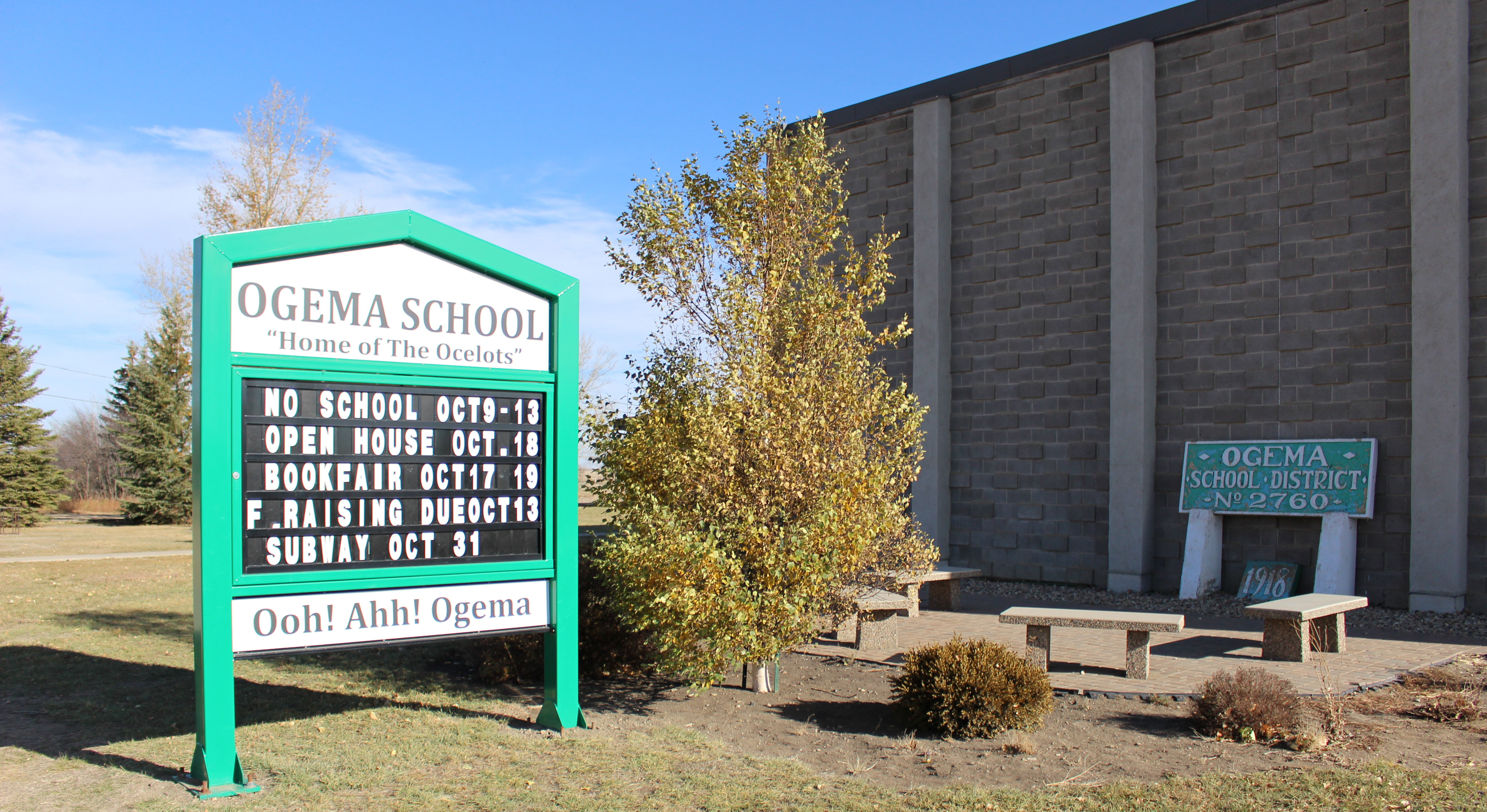 The sign in front of Ogema School, 2017.